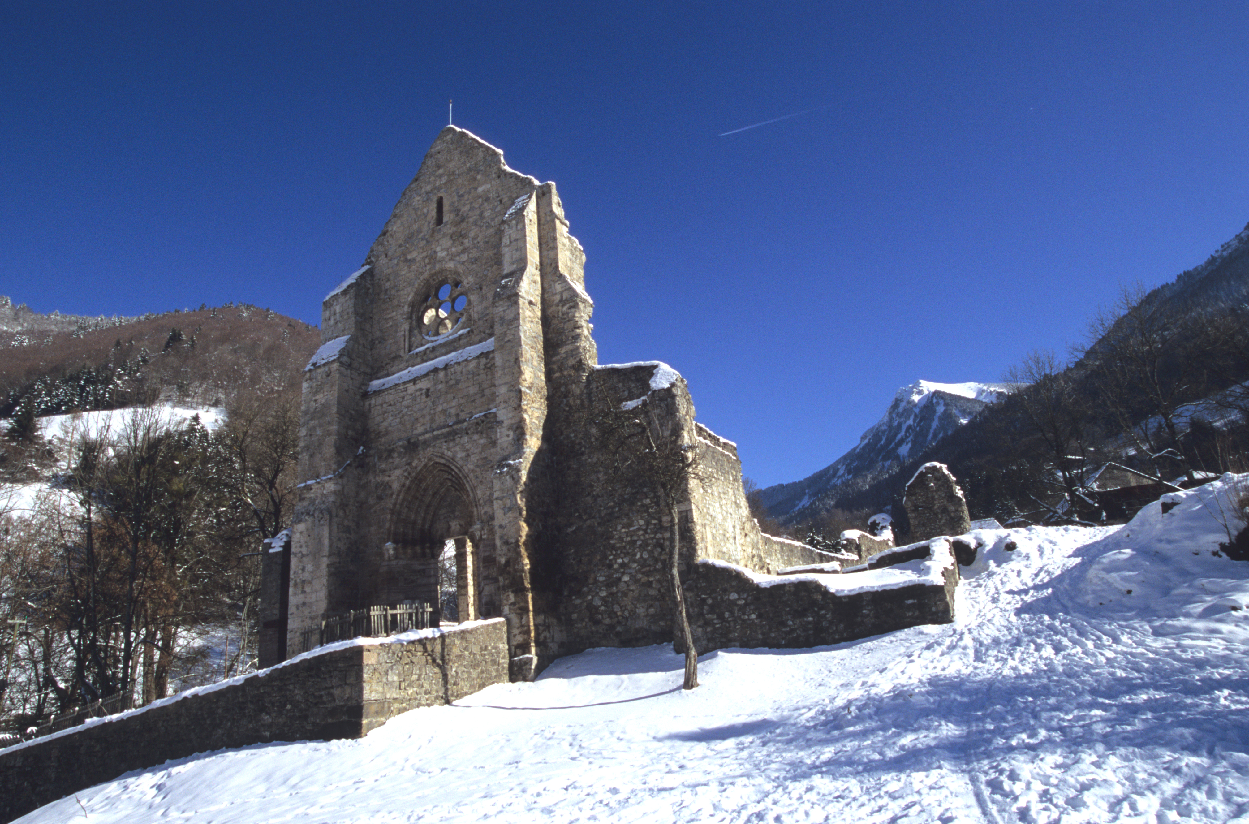 Les vestiges de l'abbaye d'Aulps sous la neige. Yvan Tisseyre/OT Vallée d'Aulps.